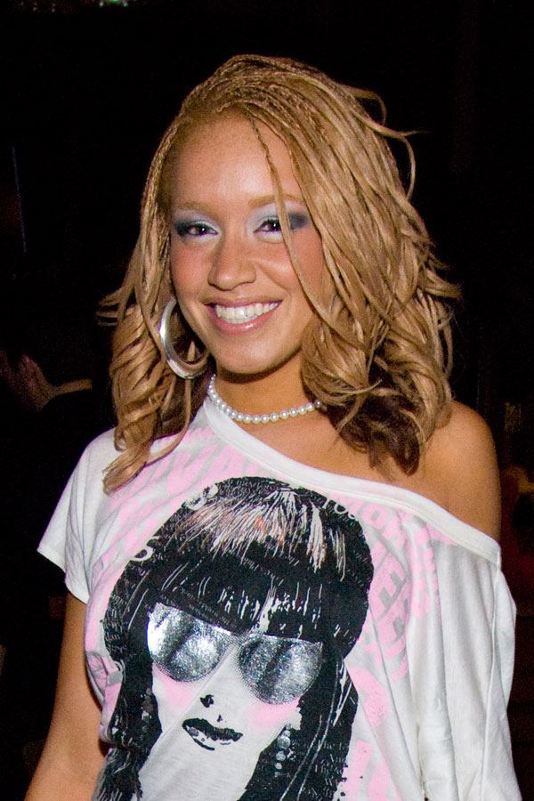 Brianna Taylor on MTV Real World Tour at Chicago Vision Nightclub, photo by Adam Bielawski